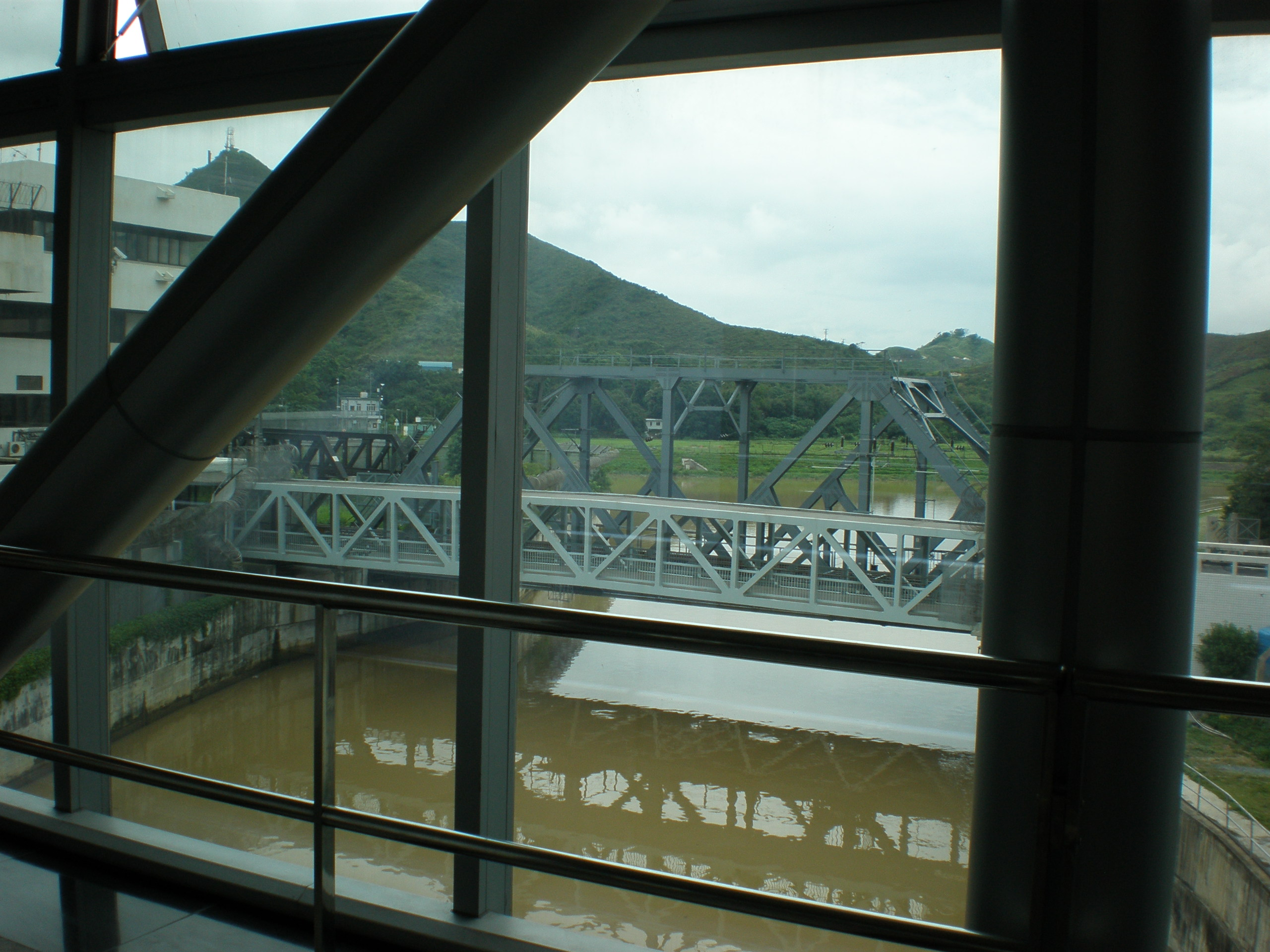 China & S.A.R. Hong Kong border - view from bridge over Sham Chun River at Lo Wu border crossing - June 2008